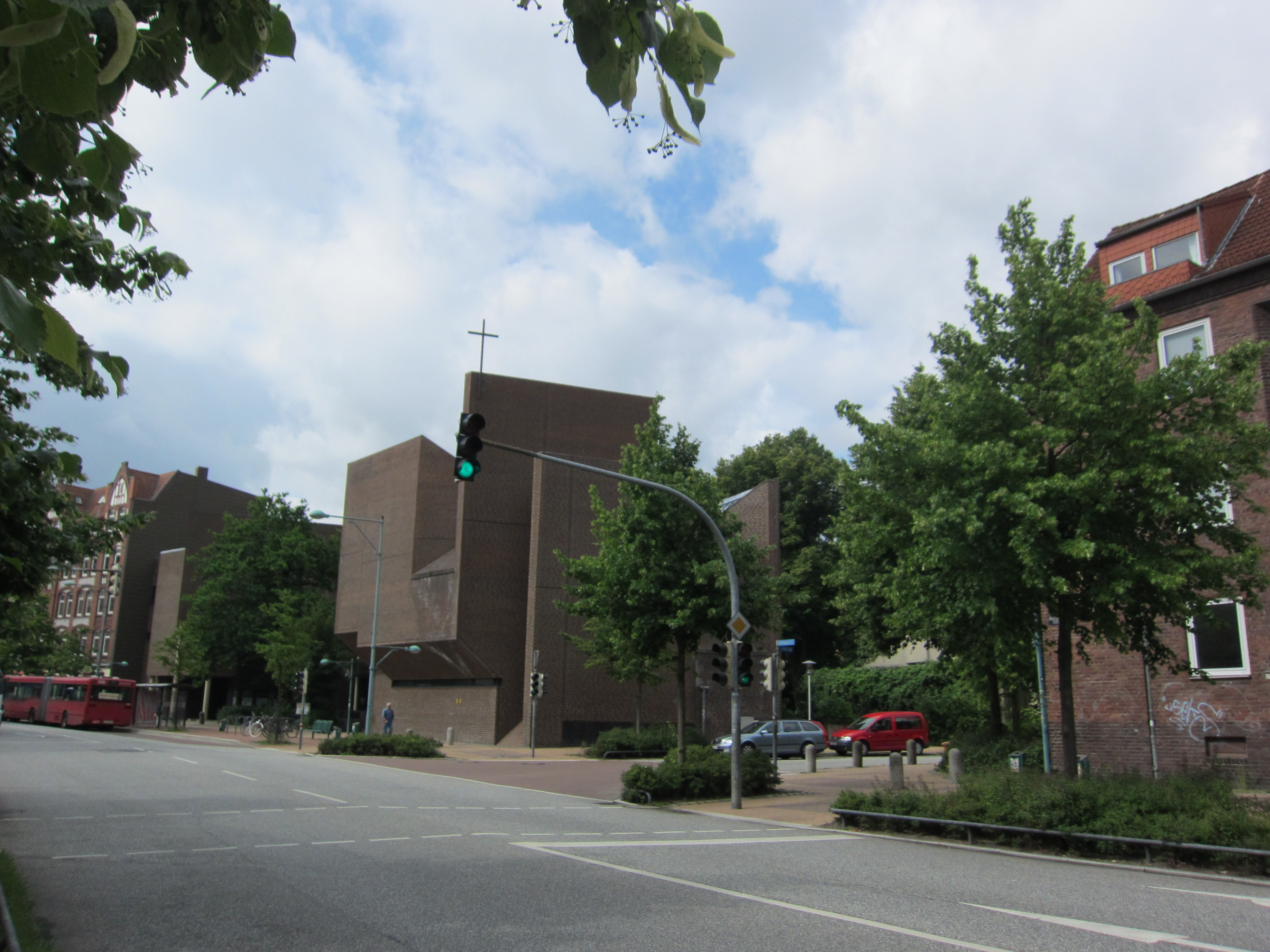 Church "St. Lukas" in Kiel-Wik